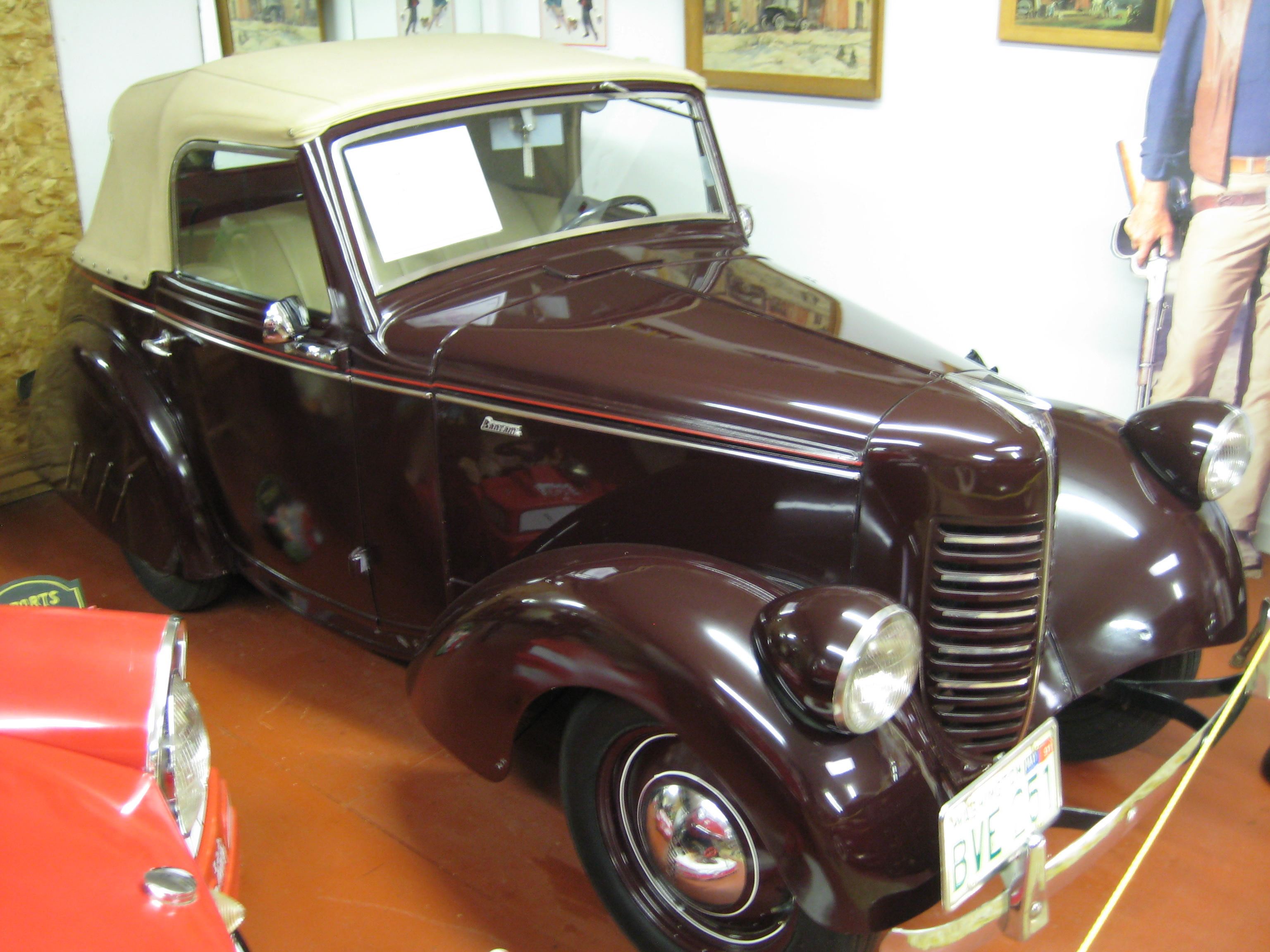 The LeMay Family has a couple of these Austin Seven based American cars. They do look unusual among what is generally a collection of American luxury cars.